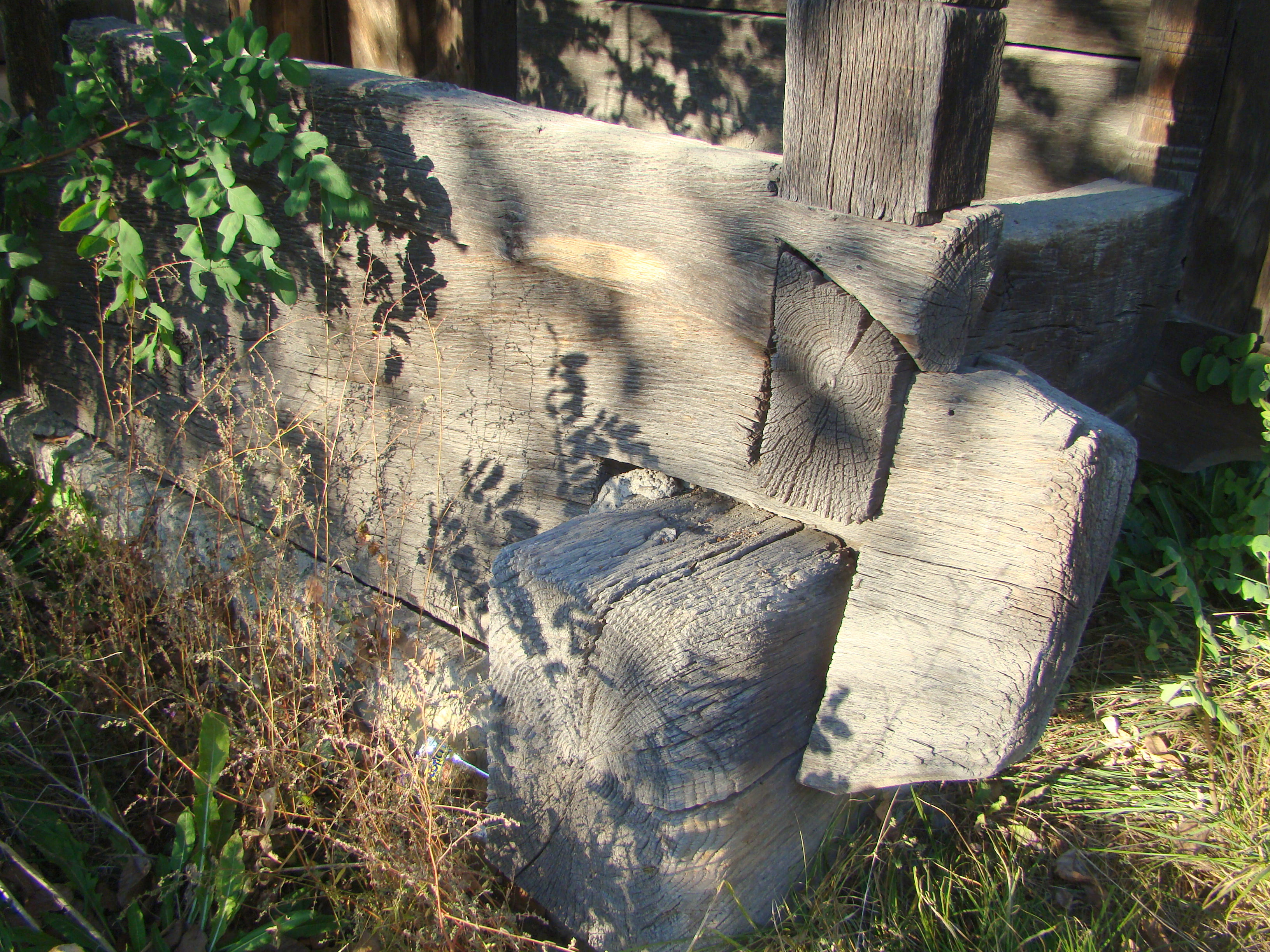 Wooden church in Larga, Gorj county, Romania